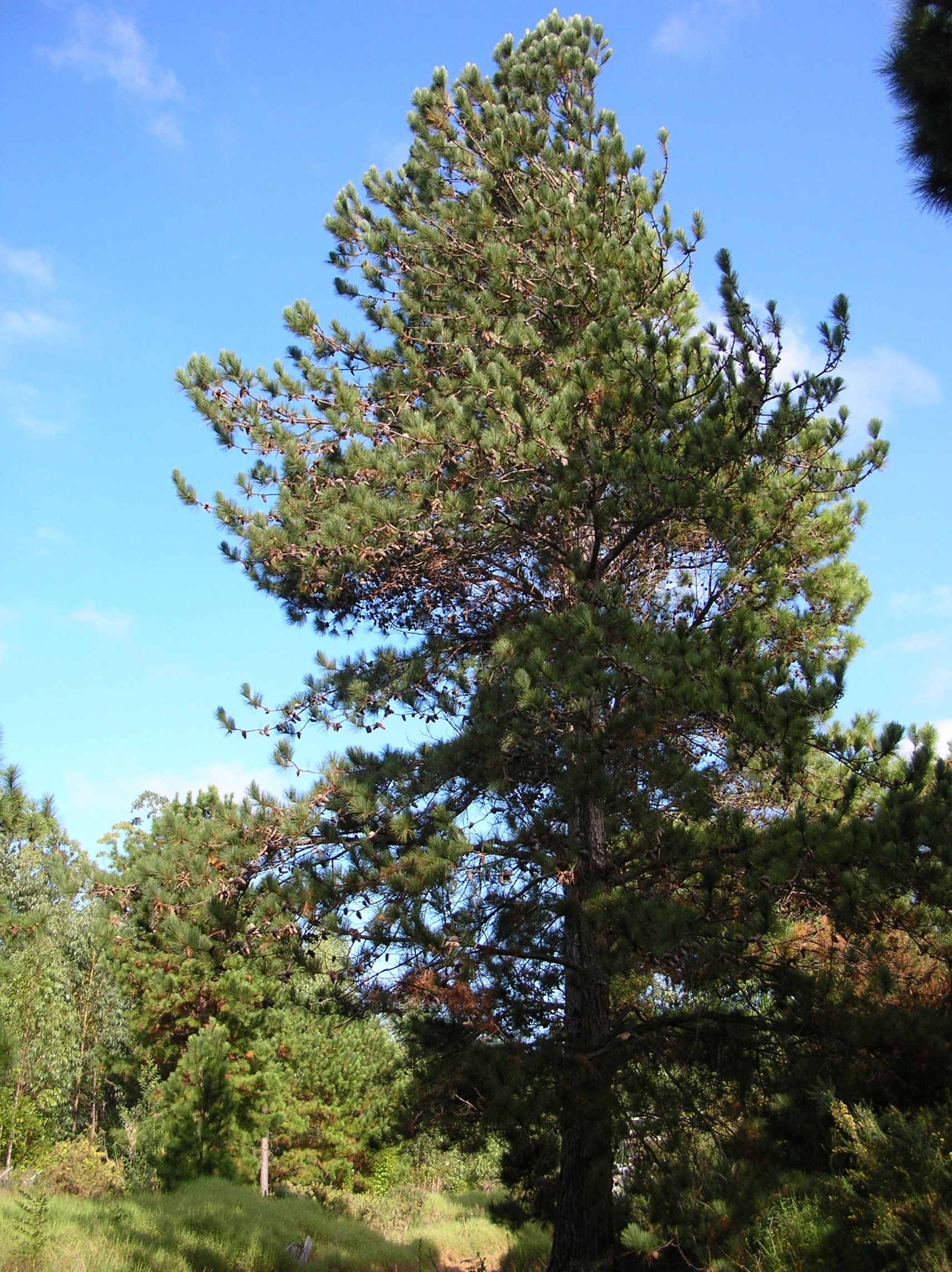 Pinus hondurensis (habit). Location: Maui, Makawao Forest Reserve